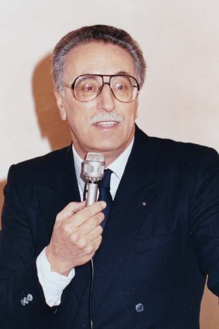 Giorgio Odaglia, December 1987